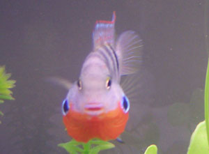 firemouth defending